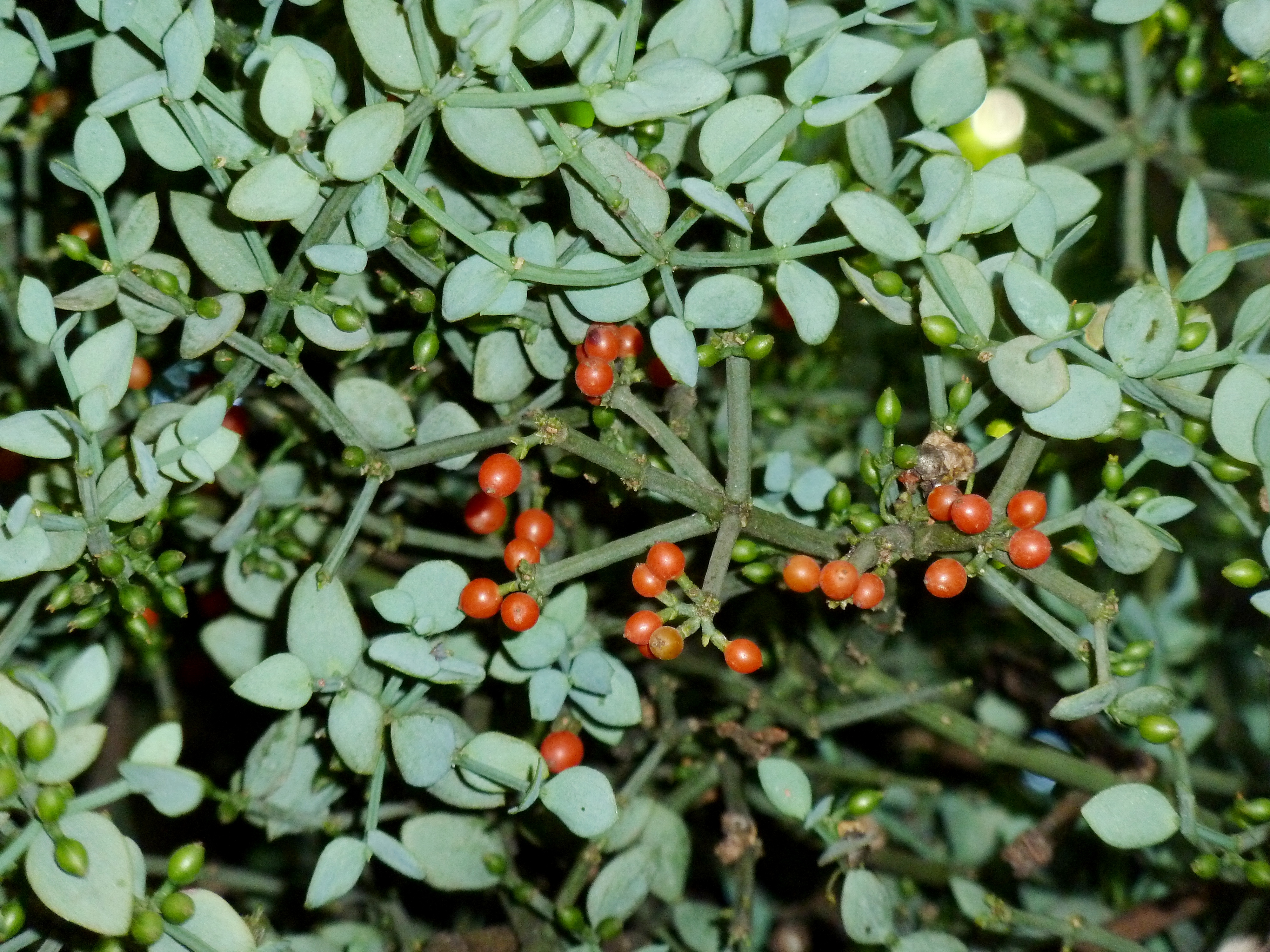 Green and ripe fruit of a Red-berry mistletoe in the gardens of the Union Buildings, Pretoria